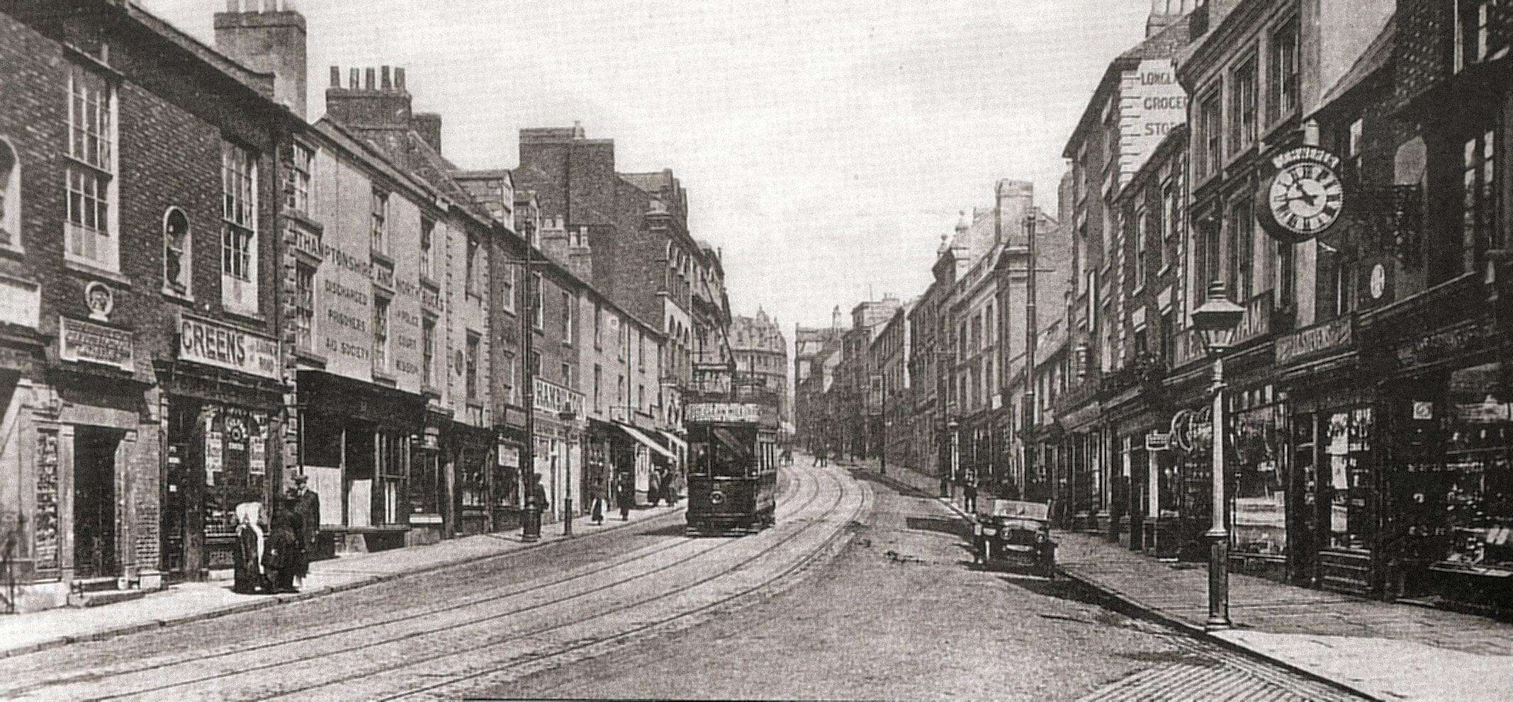 Bridge Street, Northampton with tram